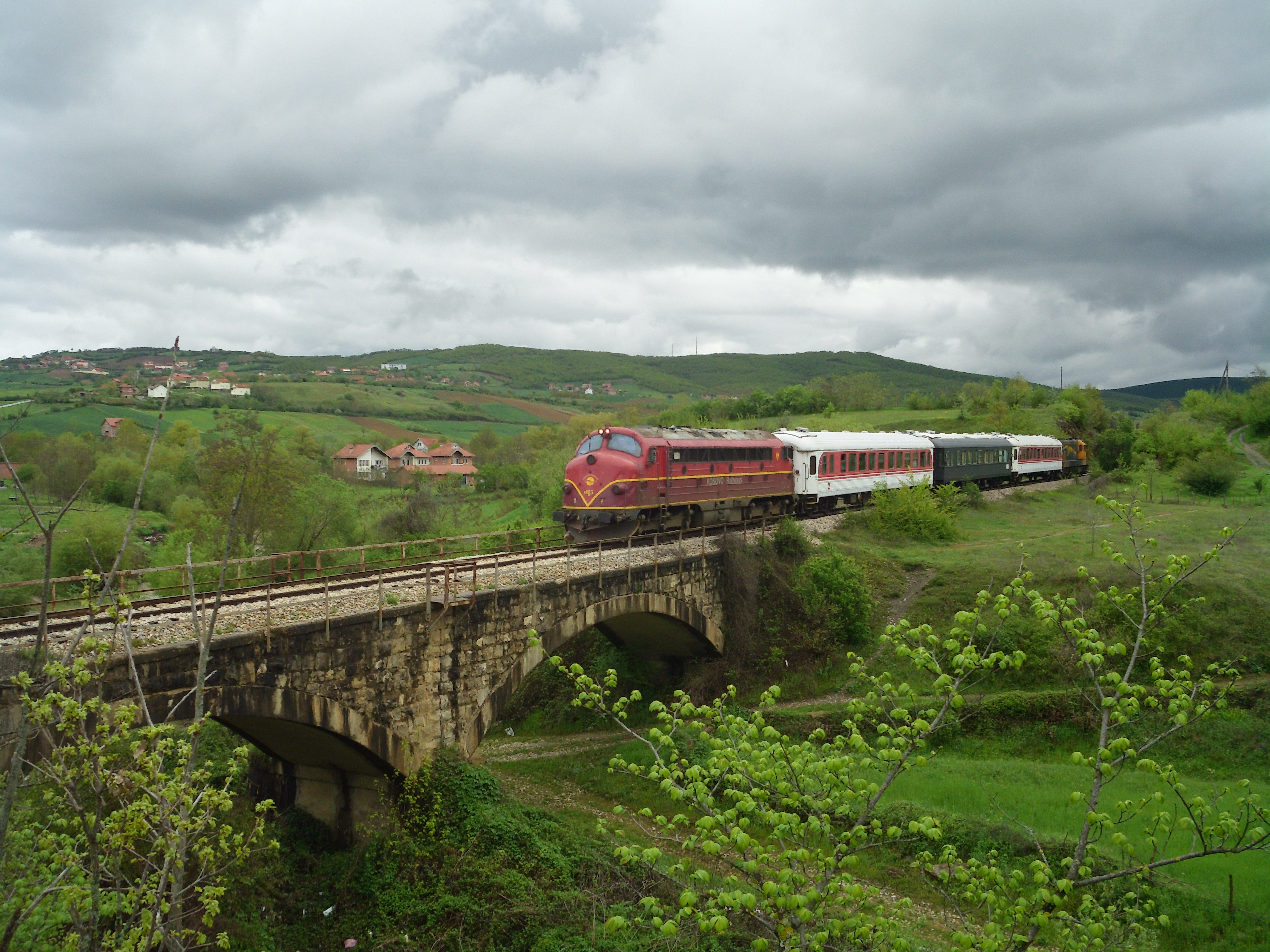 A tourist train, headed by a NOHAB engine, on a bridge over the Klina river east of Klinë, Kosovo, on a route from Fushë Kosovë.